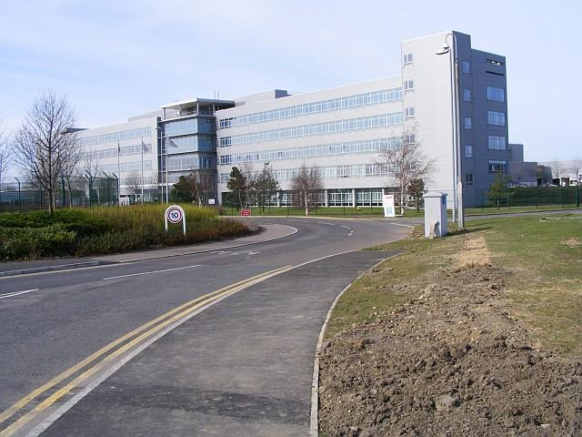 Cobalt Business Park South - Atmel Microprocessor factory The factory is now closed and is being partially demolished, this part will probably remain as an office block. The car park is very large and the area nearest to Middle Engine Lane is now occupied by a Honda car dealership.